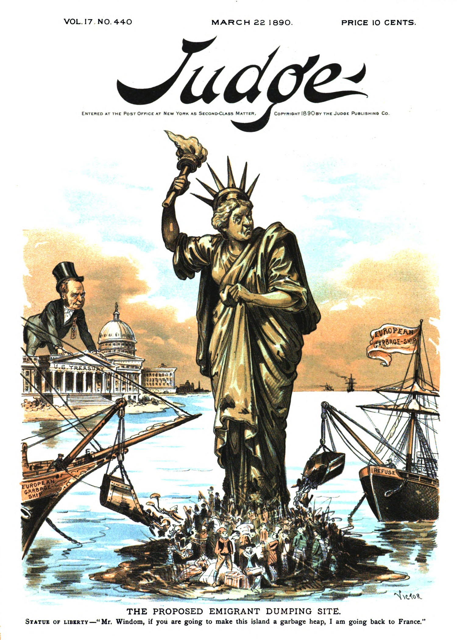 Judge Magazine Cover (22 Mar 1890)